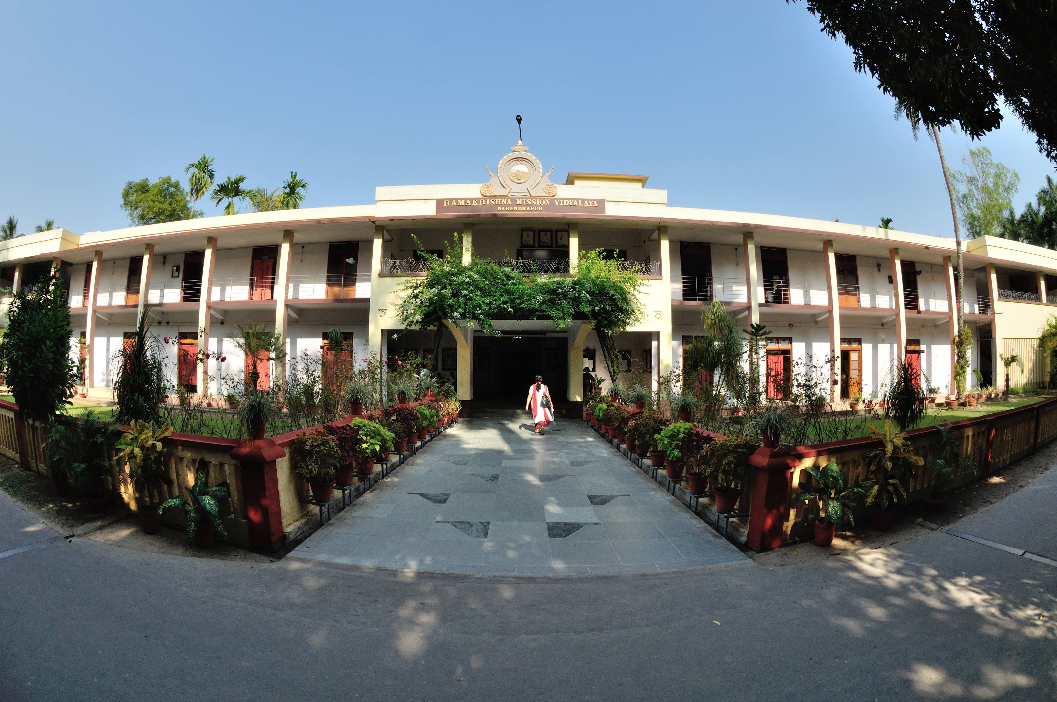 Photographed in Narendrapur, greter Kolkata.